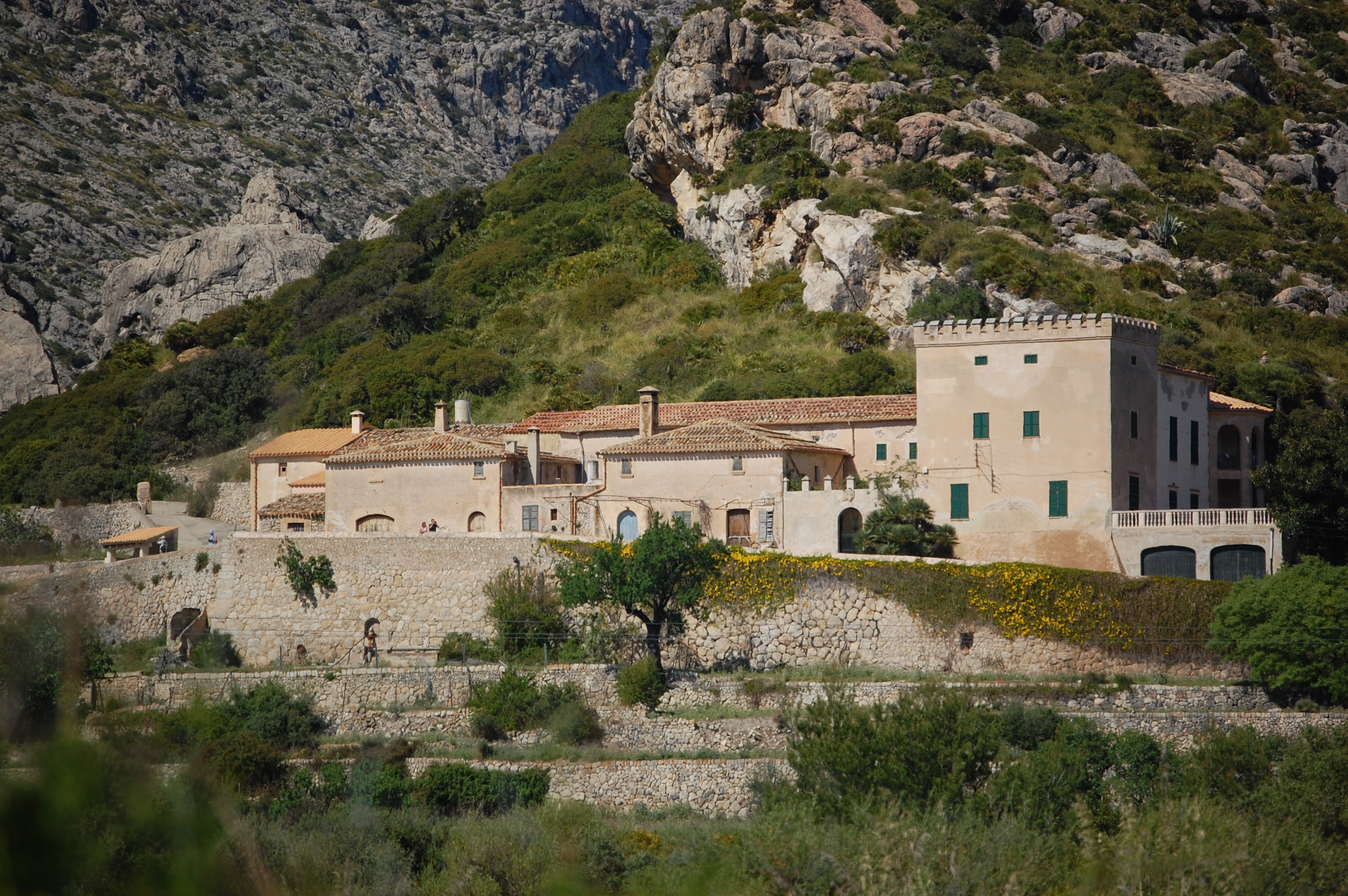 Finca Boquer, a finca (farmhouse) at Port de Pollença, Majorca. It sits at the inland end of the Boquer Valley.